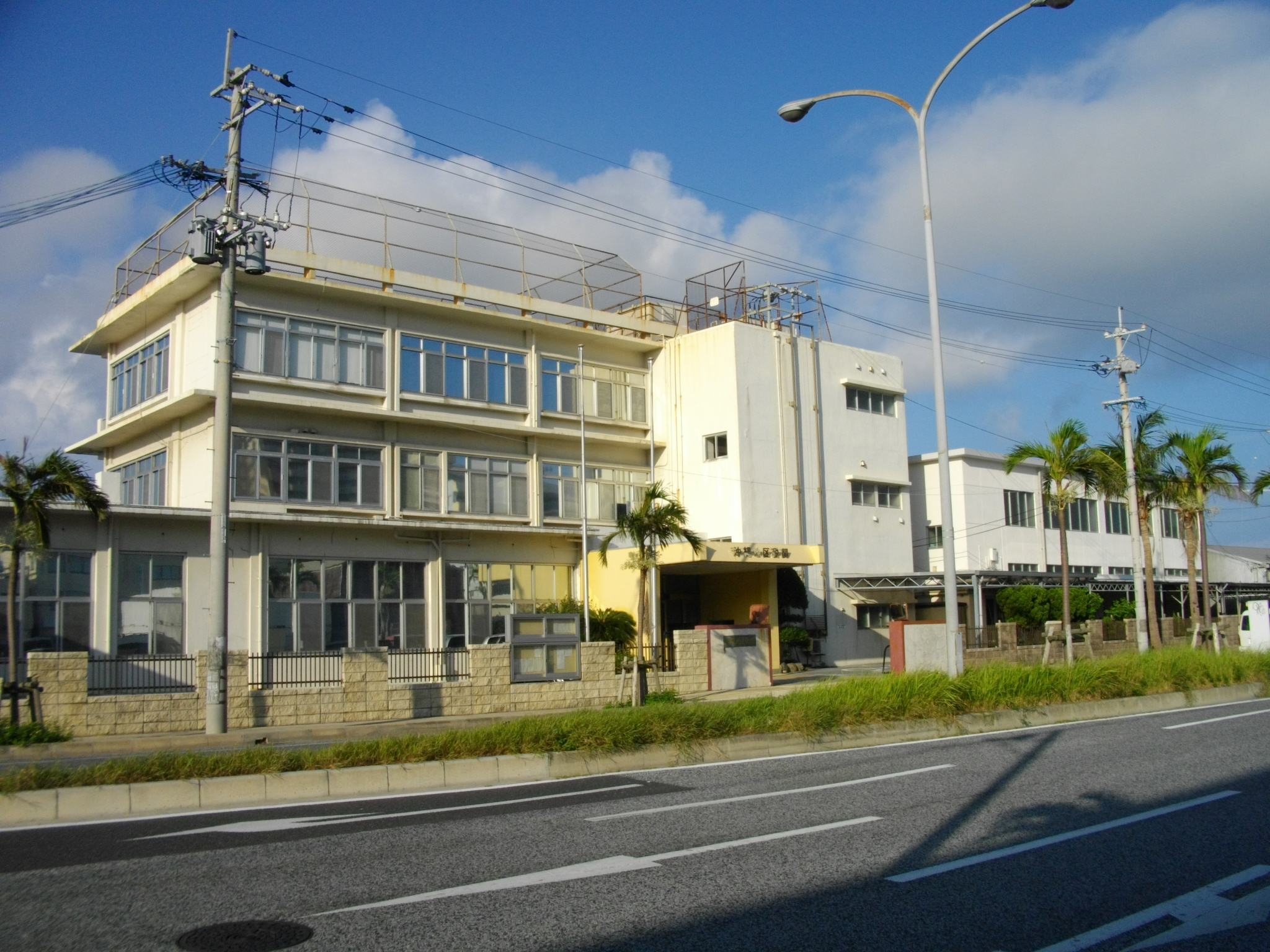 Okinawa Regional Customs